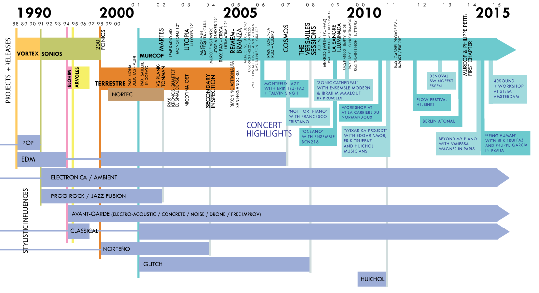 Infographic of Fernando Corona's musical background, from 1988 to 2012. Including his music projects, stylistic influences and concert highlights.